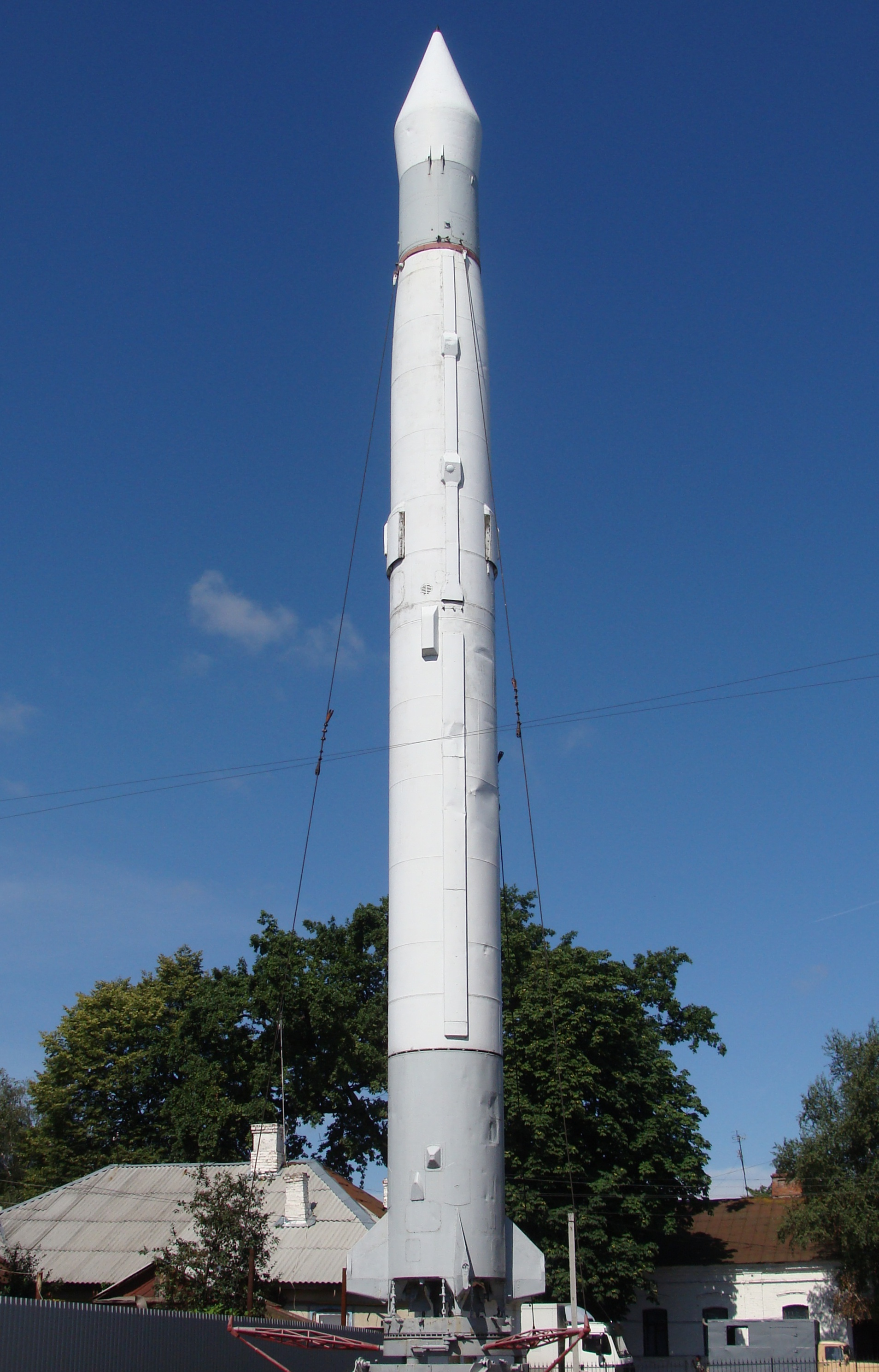 "This is the R-5 known in the West as “R-5W” (Cyrillic: “Р-5В”) as is evidenced from the Extended Nose Cone, where Geophysical Instruments were located for Research." Located at the Zhytomyr Korolyov Museum in Zhytomyr, Zhytomyr Oblast,Ukraine.